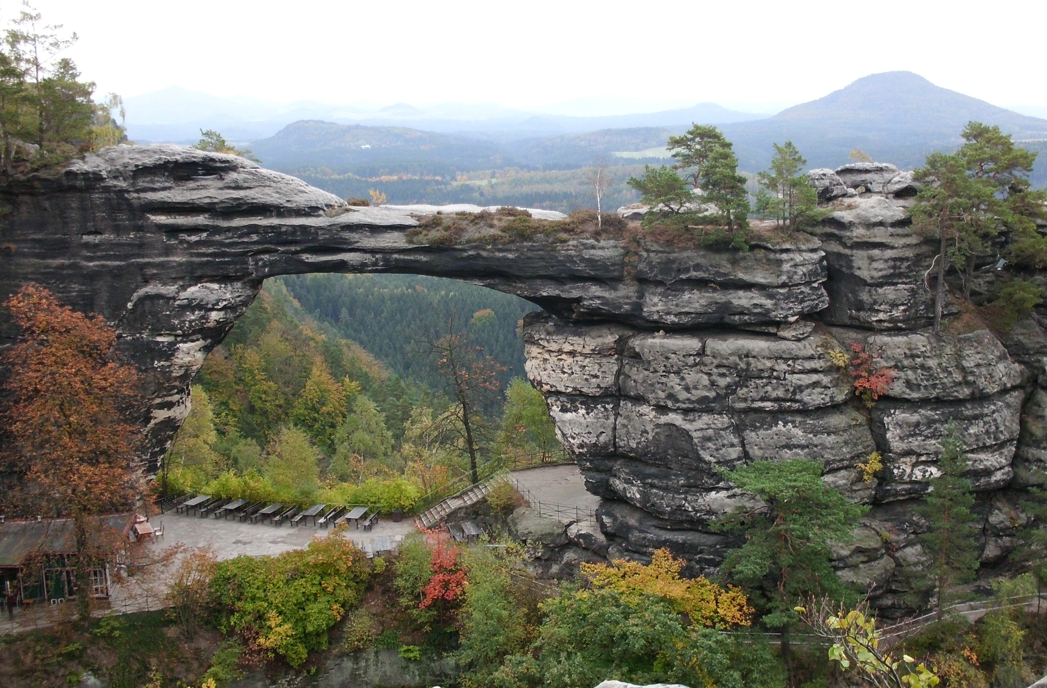 National natural monument Pravčická brána in Děčín District, Czech Republic.